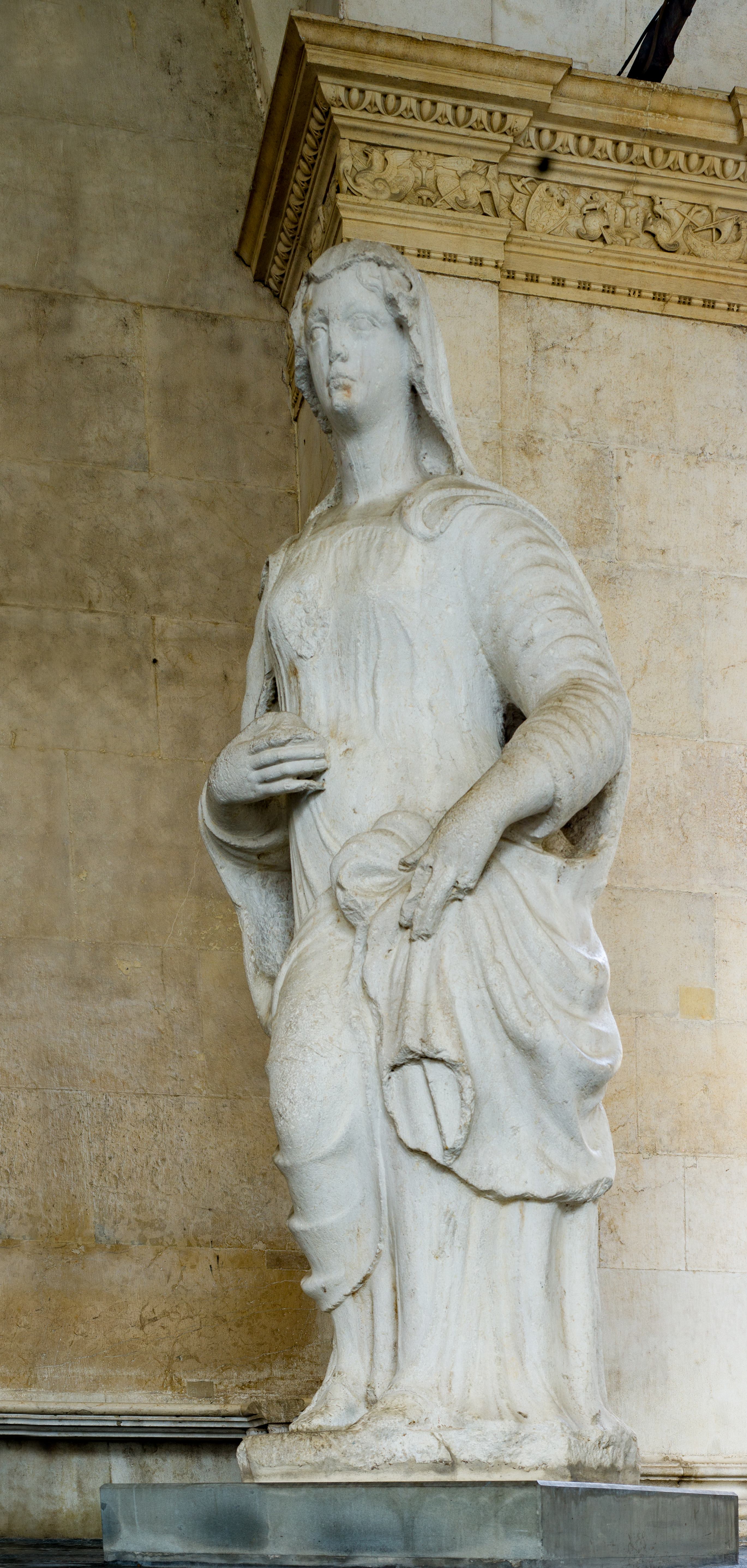 Lodoiga (Ludovica) white marble talking renaissance statue in the Palazzo della Loggia) palace in Brescia.